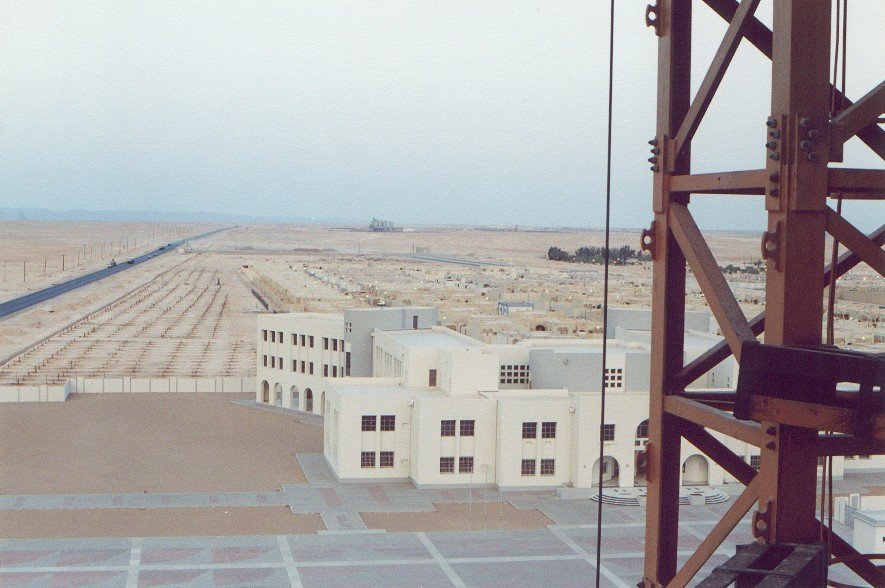 A view from modern Houn, Libya